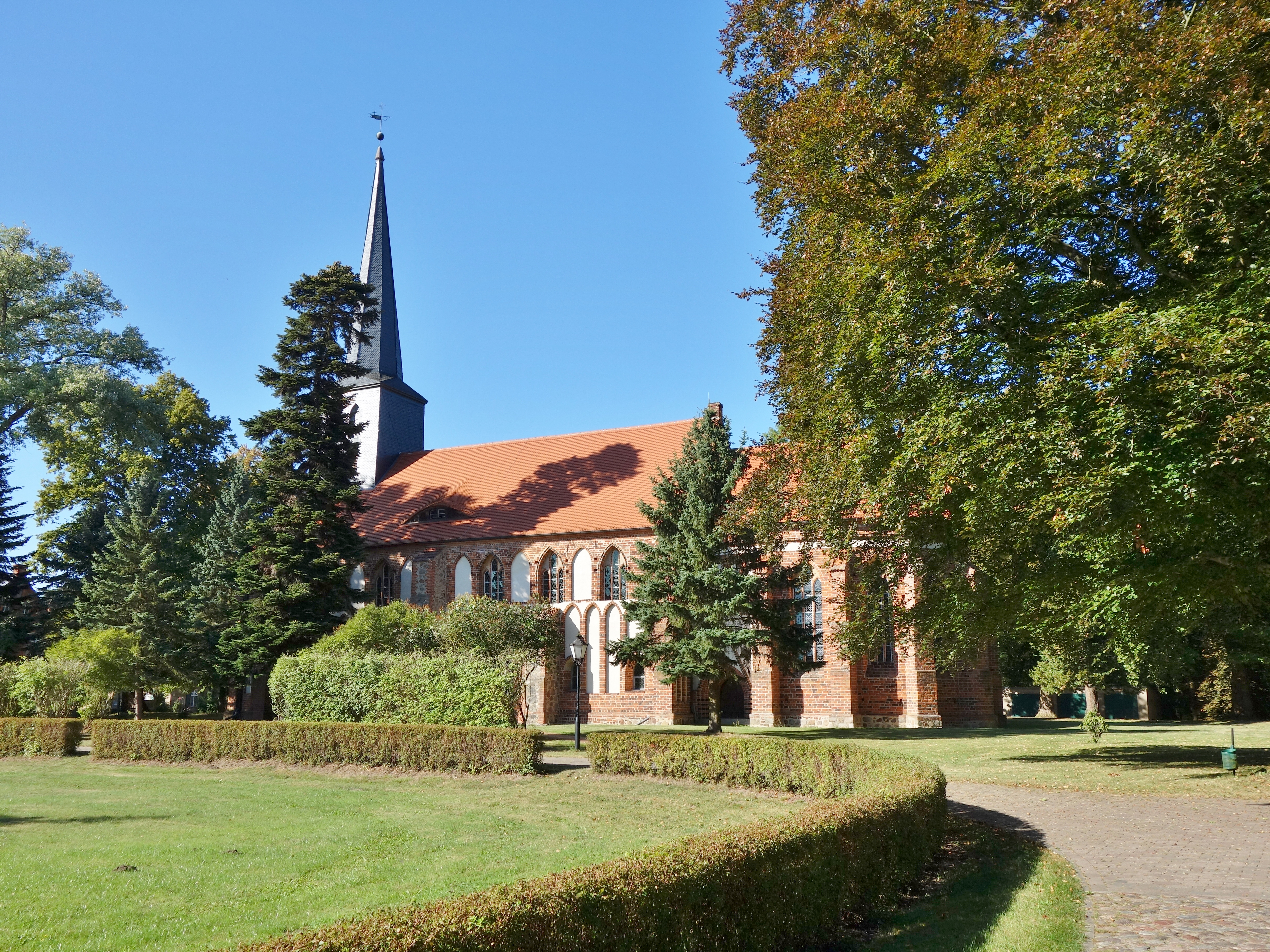 South-eastern view of Marienfließ minster in Stepenitz, Marienfließ municipality, Prignitz district, Brandenburg state, Germany